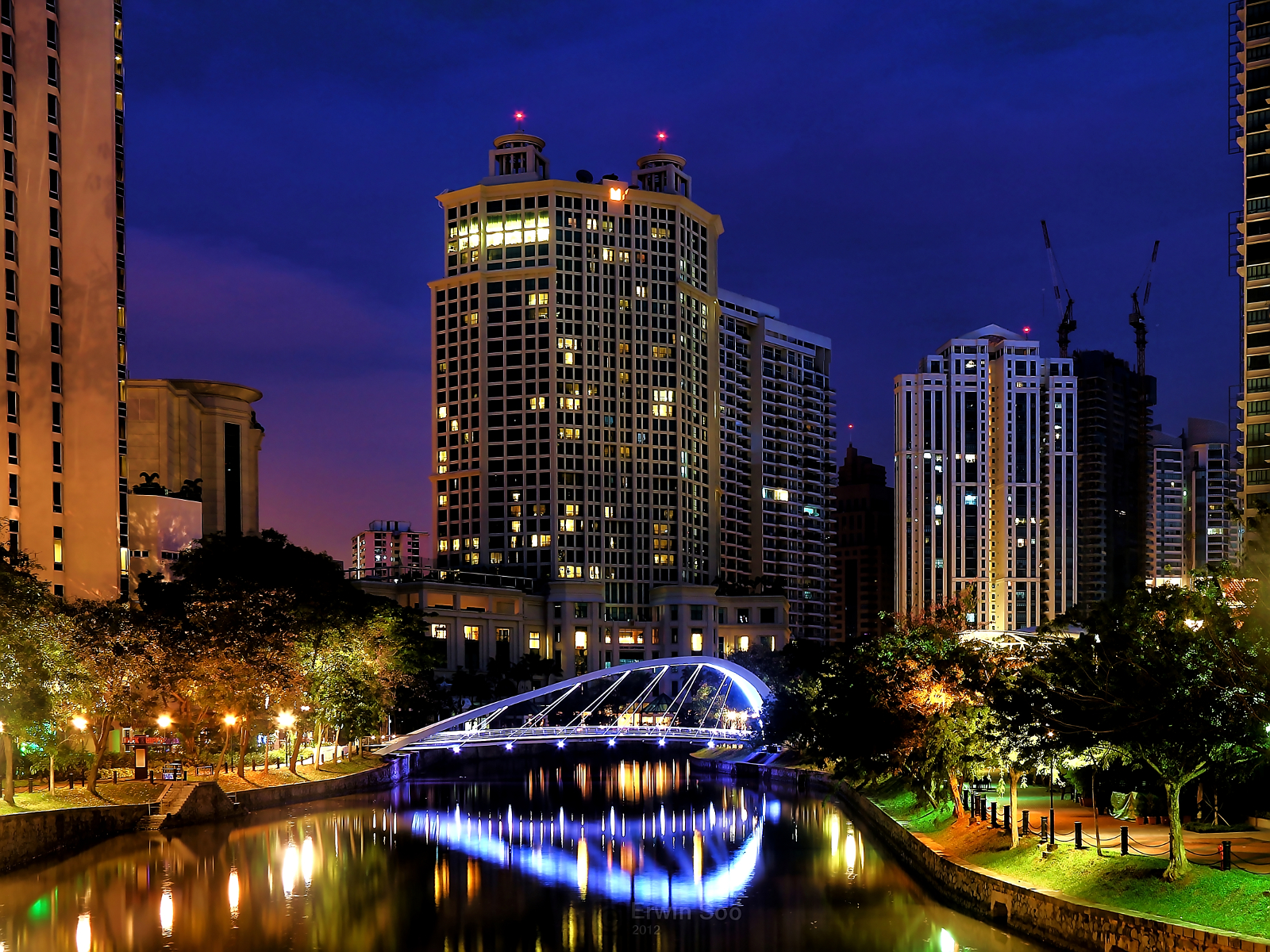 Grand Copthorne Hotel, Singapore River